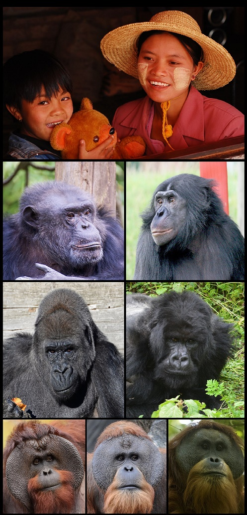 All extant species of hominid: Top) Human, Middle) Common chimpanzee, bonobo, western gorilla & eastern gorilla, Bottom) Bornean, Sumatran & Tapanuli orangutan